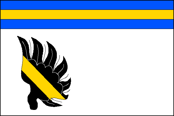 Municipal flag of Petrovice village, Blansko District, Czech Republic.